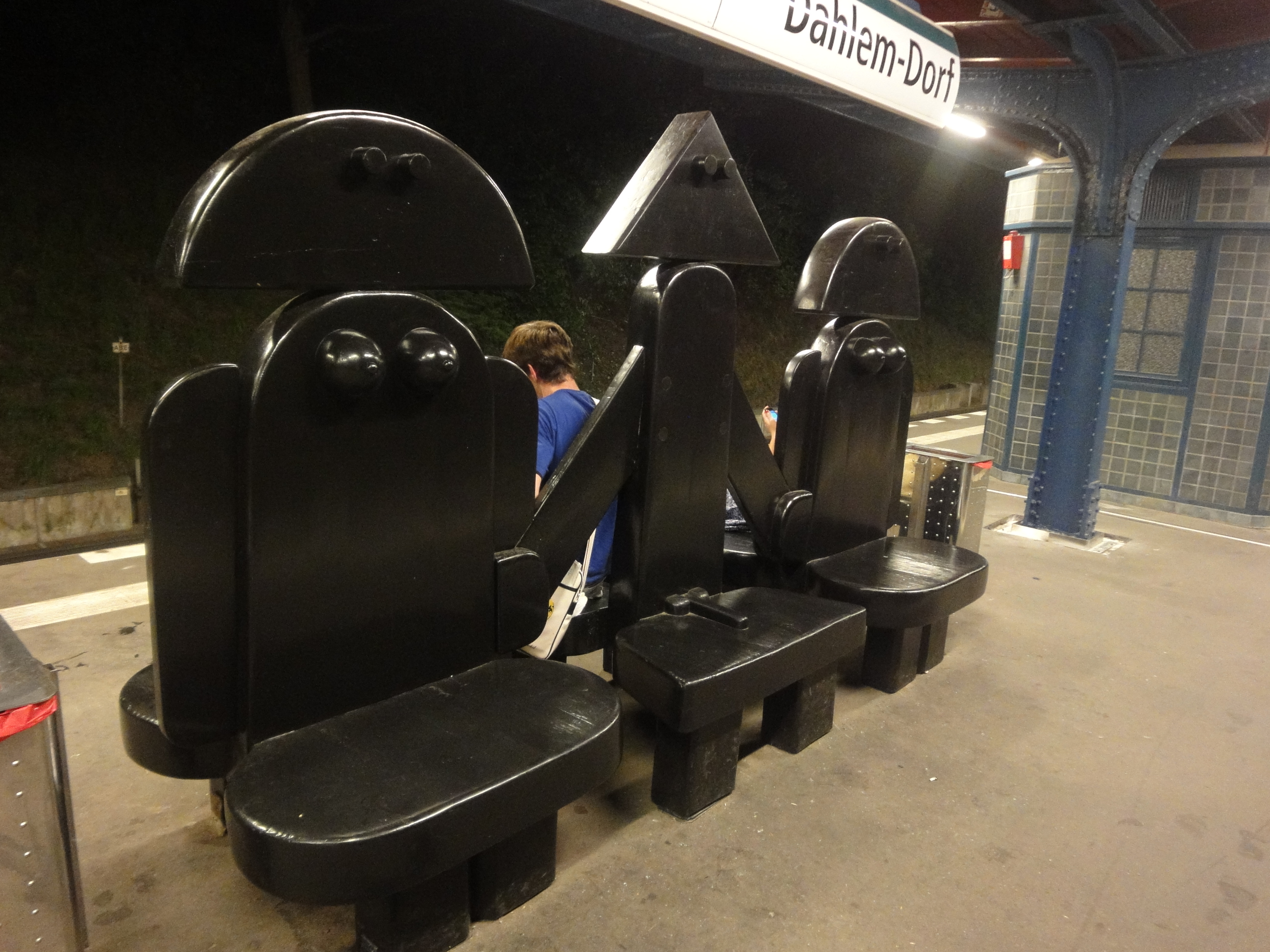 U-Bahnhof Dahlem-Dorf (Berlin) bench